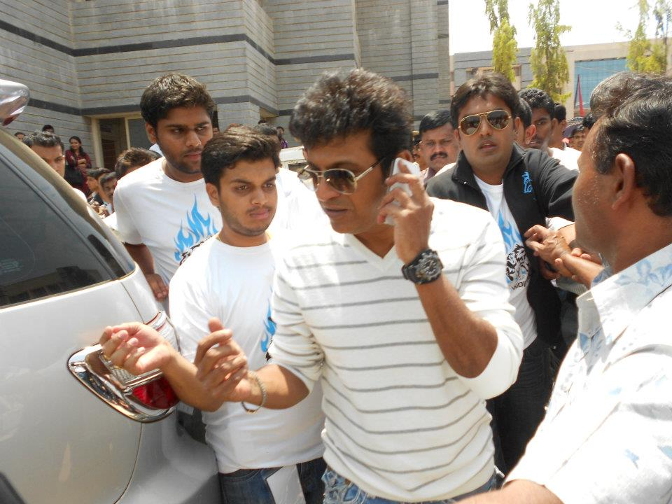 ಕನ್ನಡ: This photo was taken at MS Ramaiah Engineering college.